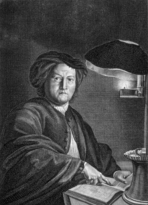 Portrait of Johann Daniel Preissler, director of the Academy of Painting in Nurenberg